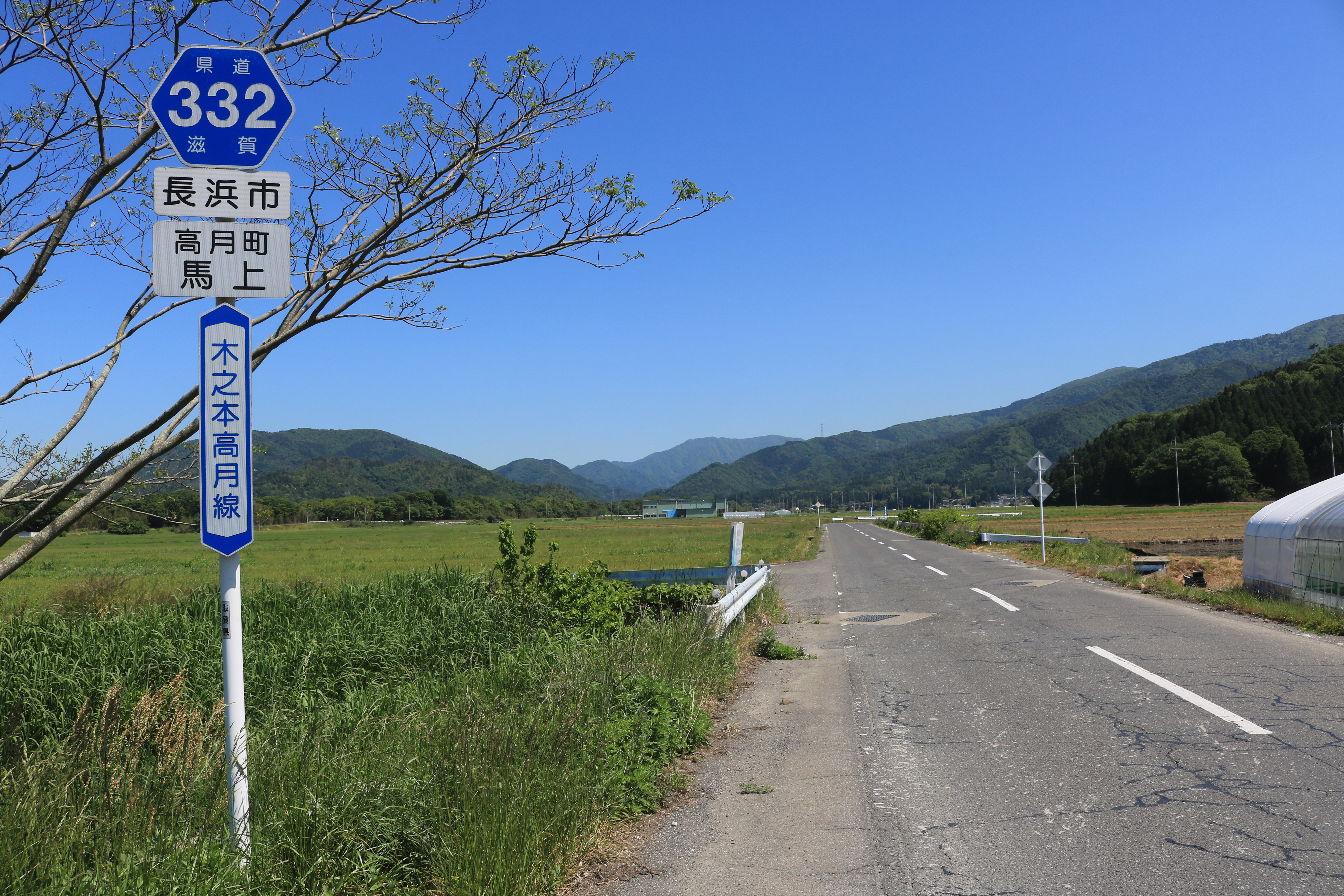 Shiga Prefectural Road Route 332 and Mount Yokoyama in Make, Takatsuki, Nagahama, Shiga prefecture, Japan.